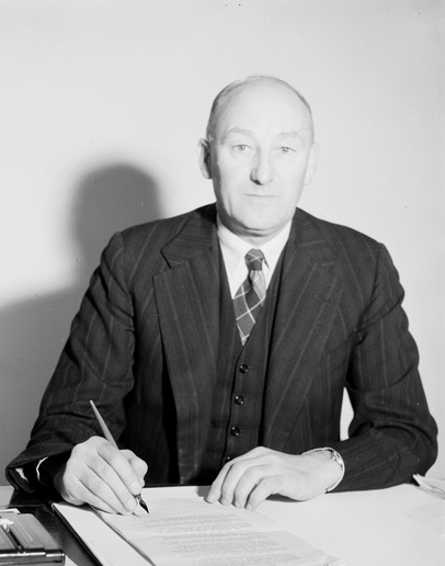 A 1945 black and white portrait of Arthur Coles, MHR for Henty